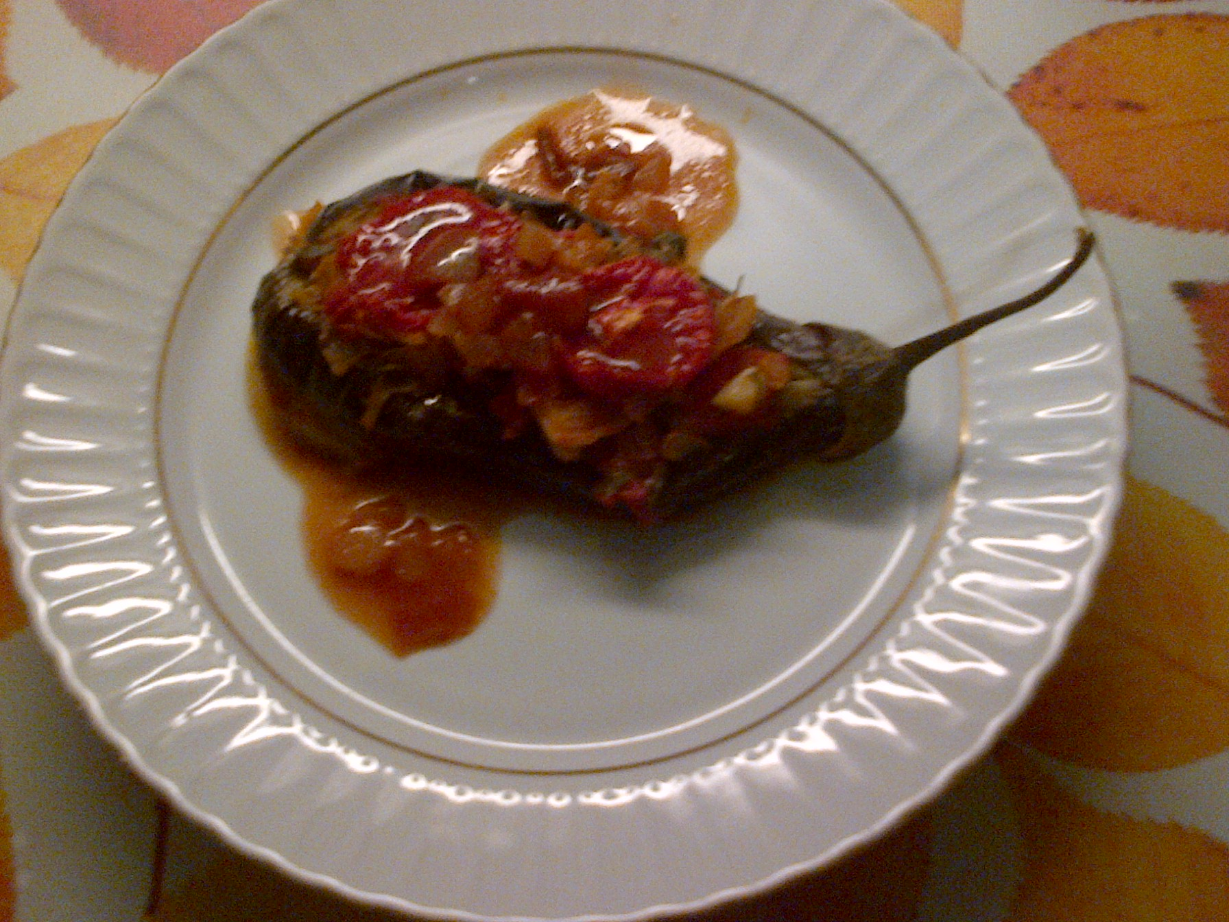 A plate of imambayildi (imambayıldı" in Turkish) from the Turkish cuisine.